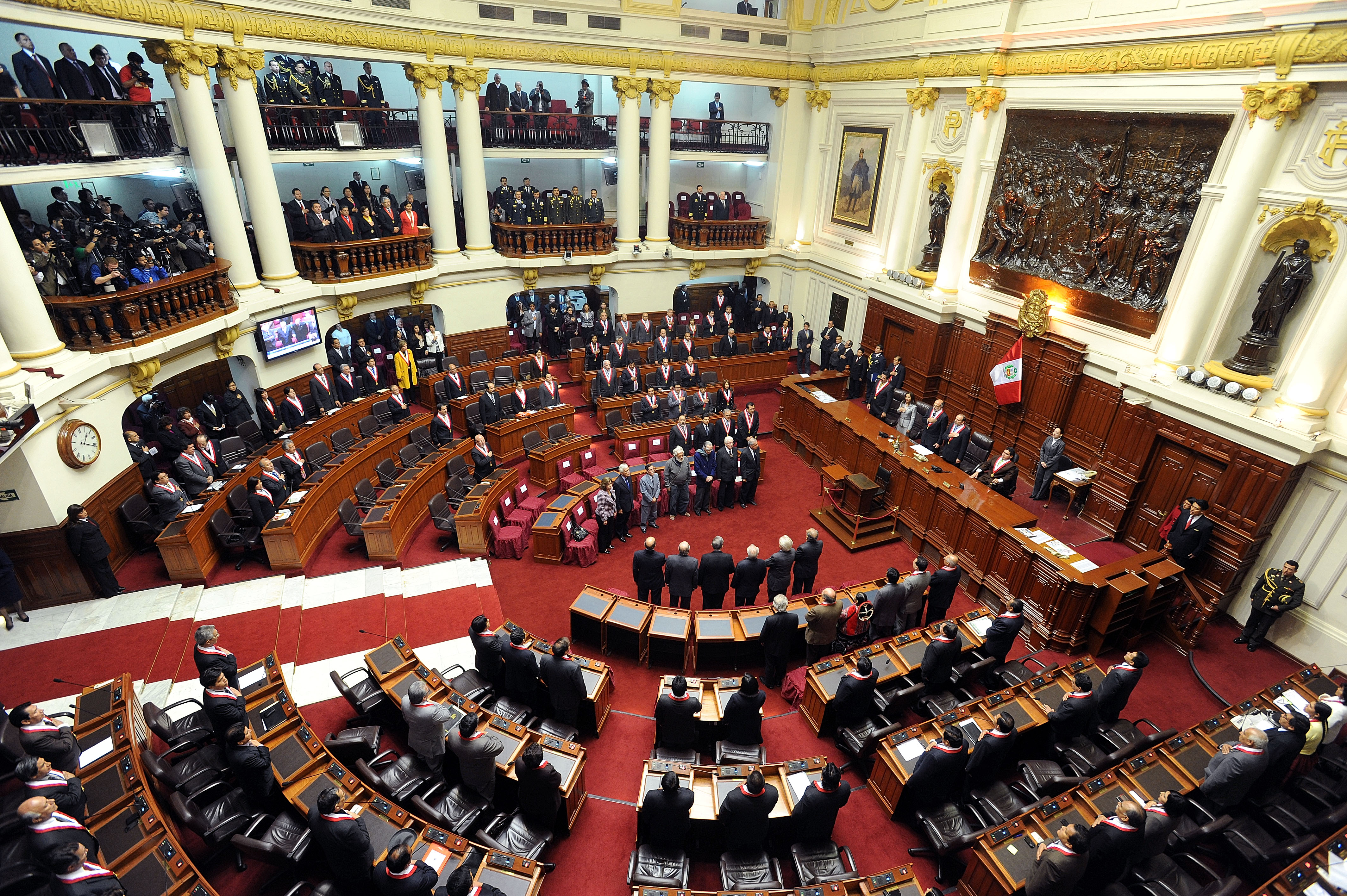 Panoramic hemicycle session of Congress of the Republic of Peru, environment where the plenary sessions of Parliament are held.